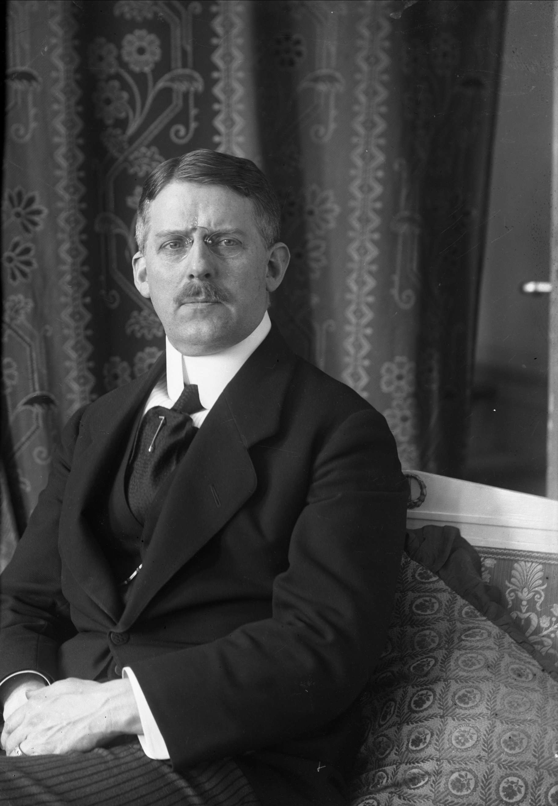 Gustav Borgen, Norwegian photographer.